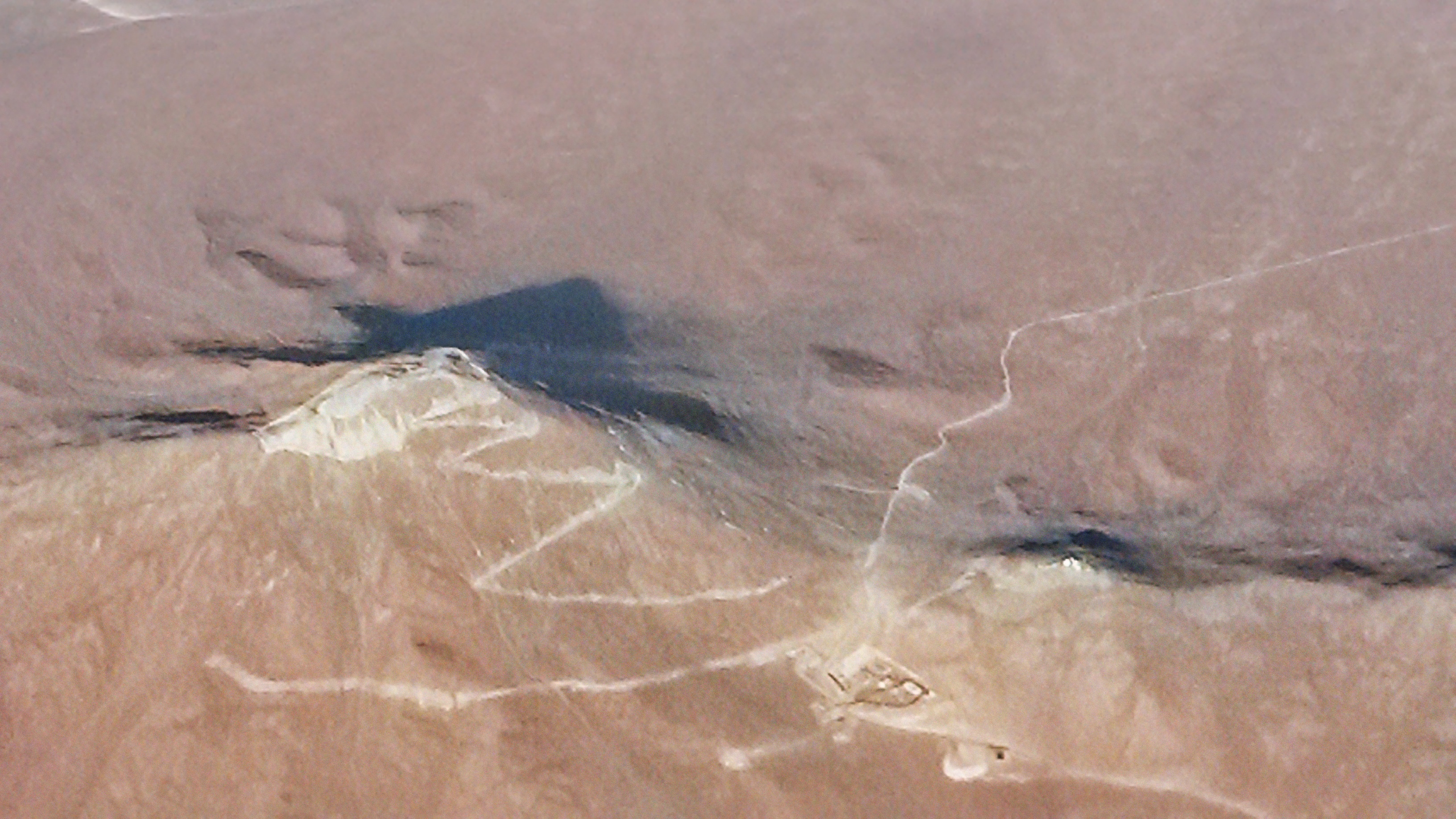 This new image shows the construction progress of the road, platform, and service trench at the site of the future European Extremely Large Telescope (E-ELT) on Cerro Armazones. The basecamp can be seen to the lower right and the new road is seen curving around the base of the mountain. The Chilean company ICAFAL Ingeniería y Construcción S.A. started the civil works for the E-ELT in March 2014 when they began construction of a road to the summit of the mountain. The construction is expected to take 16 months to complete. The road will provide access for the future construction of the giant telescope, and will be 11 metres wide, with an asphalt paved driveway 7 metres wide. Construction worker for the company, Sebastián Rivera Aguila, caught this sight on Thursday 12 June 2014 from a commercial airplane flying over the mountain. He expressed his excitement: "It is really hard work to build in the desert, but I am really proud and very happy to be part of this very important project. Thank you to ICAFAL and ESO for letting us be part of history in the making." On Thursday 19 June, ICAFAL will blast the area on the top of Cerro Armazones, loosening about 5000 tonnes of rock. This is part a large-scale levelling process which will help landscape the mountain so that it can accommodate the 39-metre telescope and the associated buildings at the observatory. A groundbreaking ceremony will take place at Paranal Observatory, 20 kilometres away from the blasting, to mark this milestone towards the construction of the E-ELT. The event will be streamed live via webcast on Livestream from 16:30 UTC until around 18:30 UTC (18:30-20:30 CEST) (subject to change). Participants can also follow the live tweeting from @ESO under the hashtag #EELTblast and ask questions, in English, which we will try as far as possible to answer in real time.